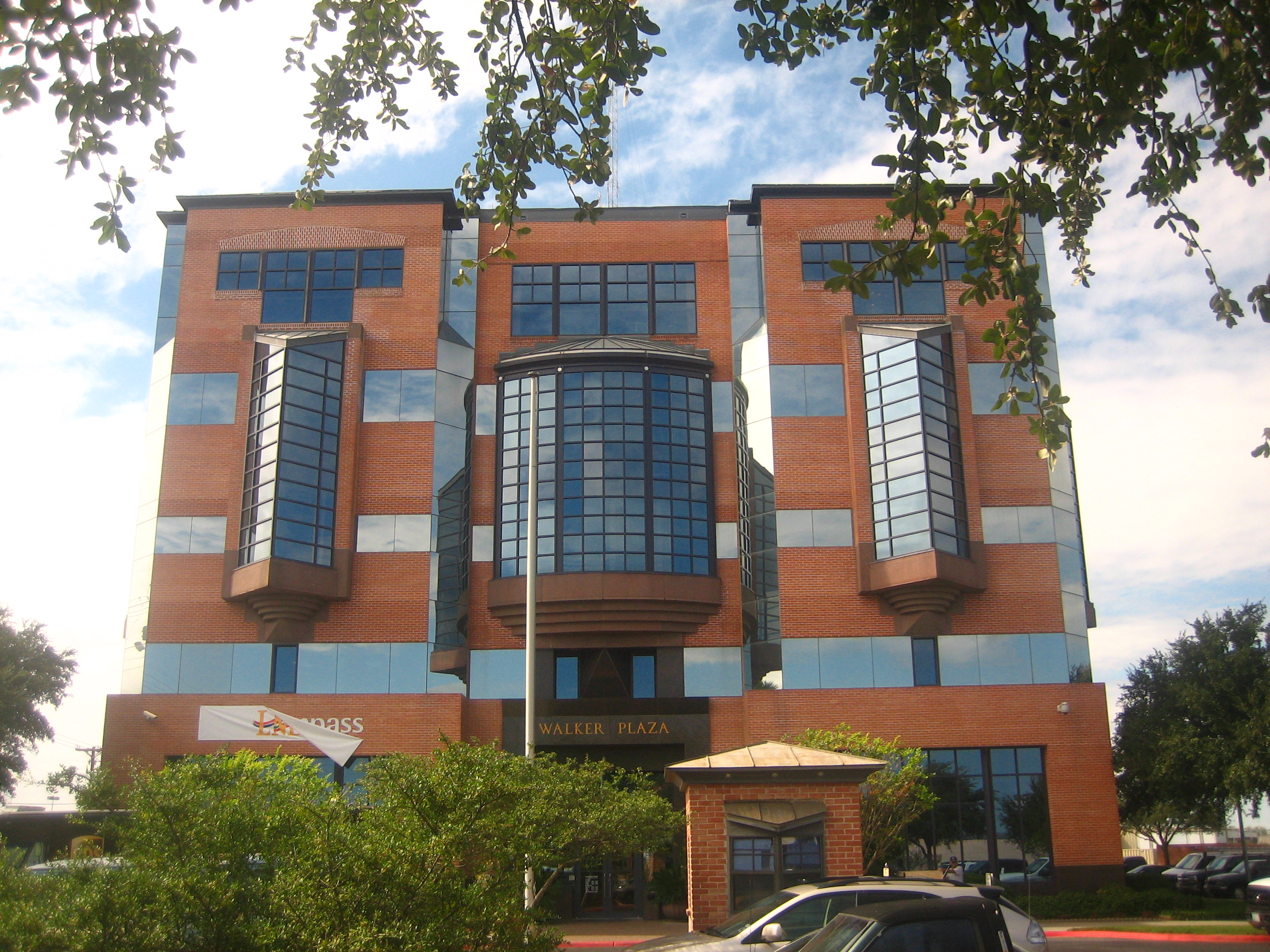 Walker Plaza off Interstate 35 in Laredo, TX